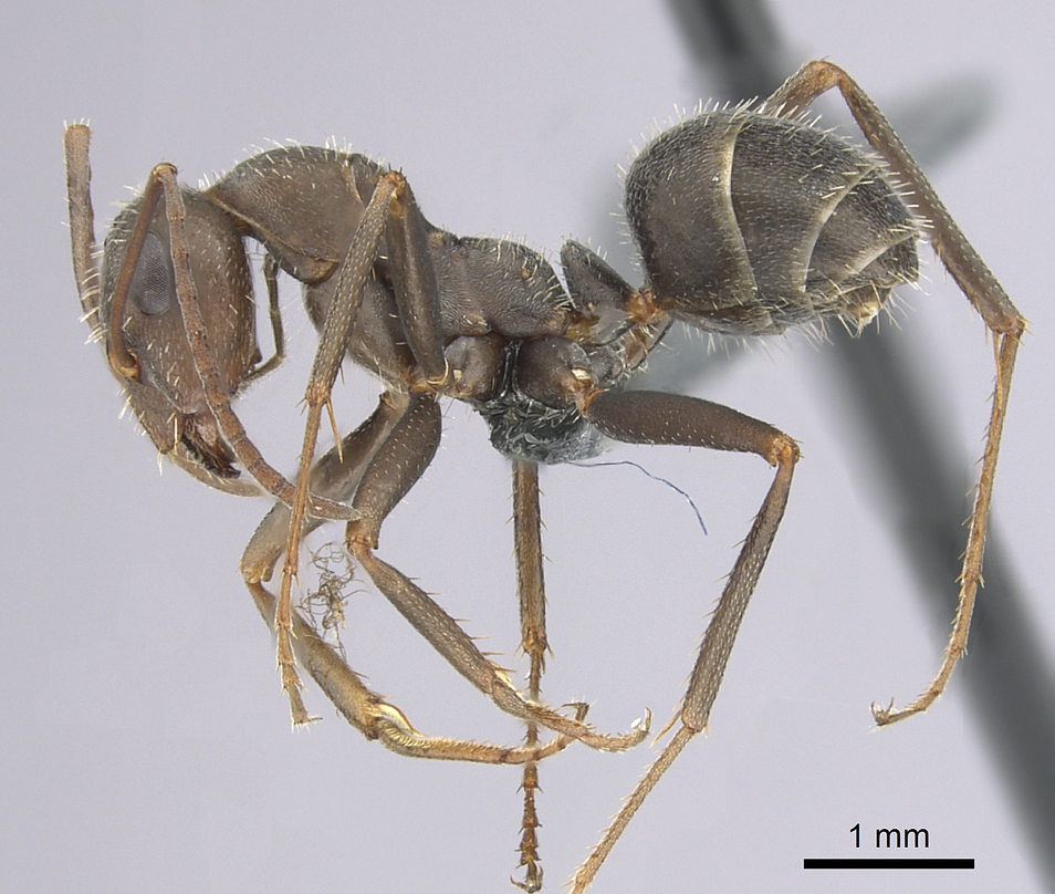 Worker specimen of Iberoformica subrufa